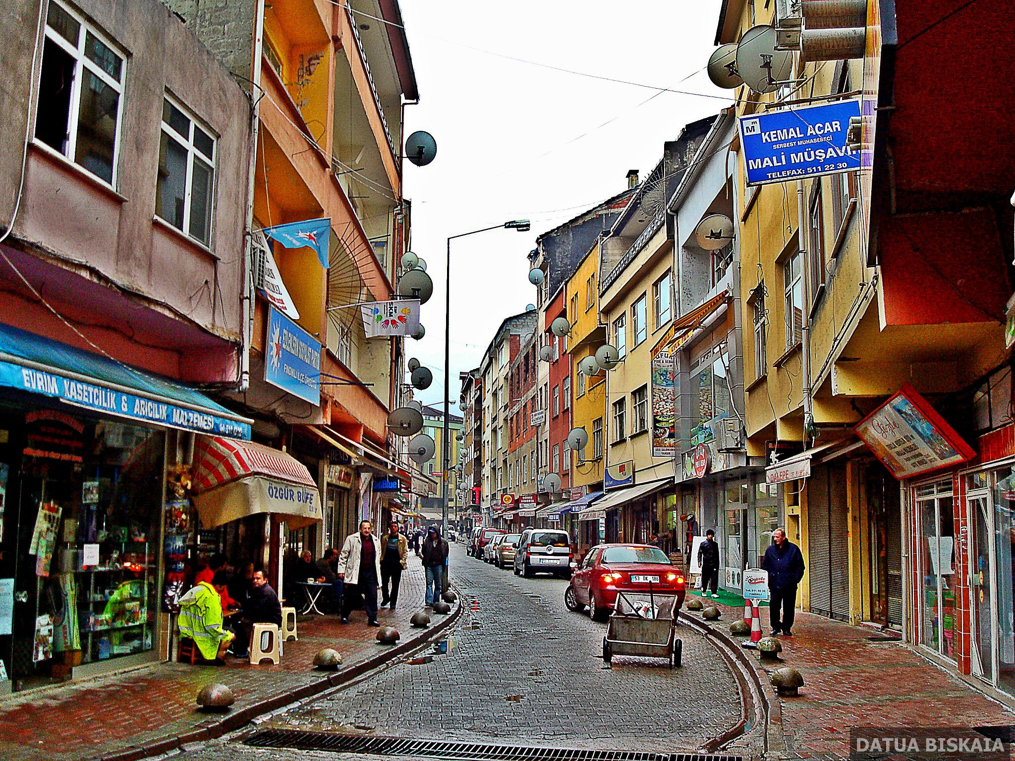 Fındıklı - Vitze, Rize Province, Lazistan